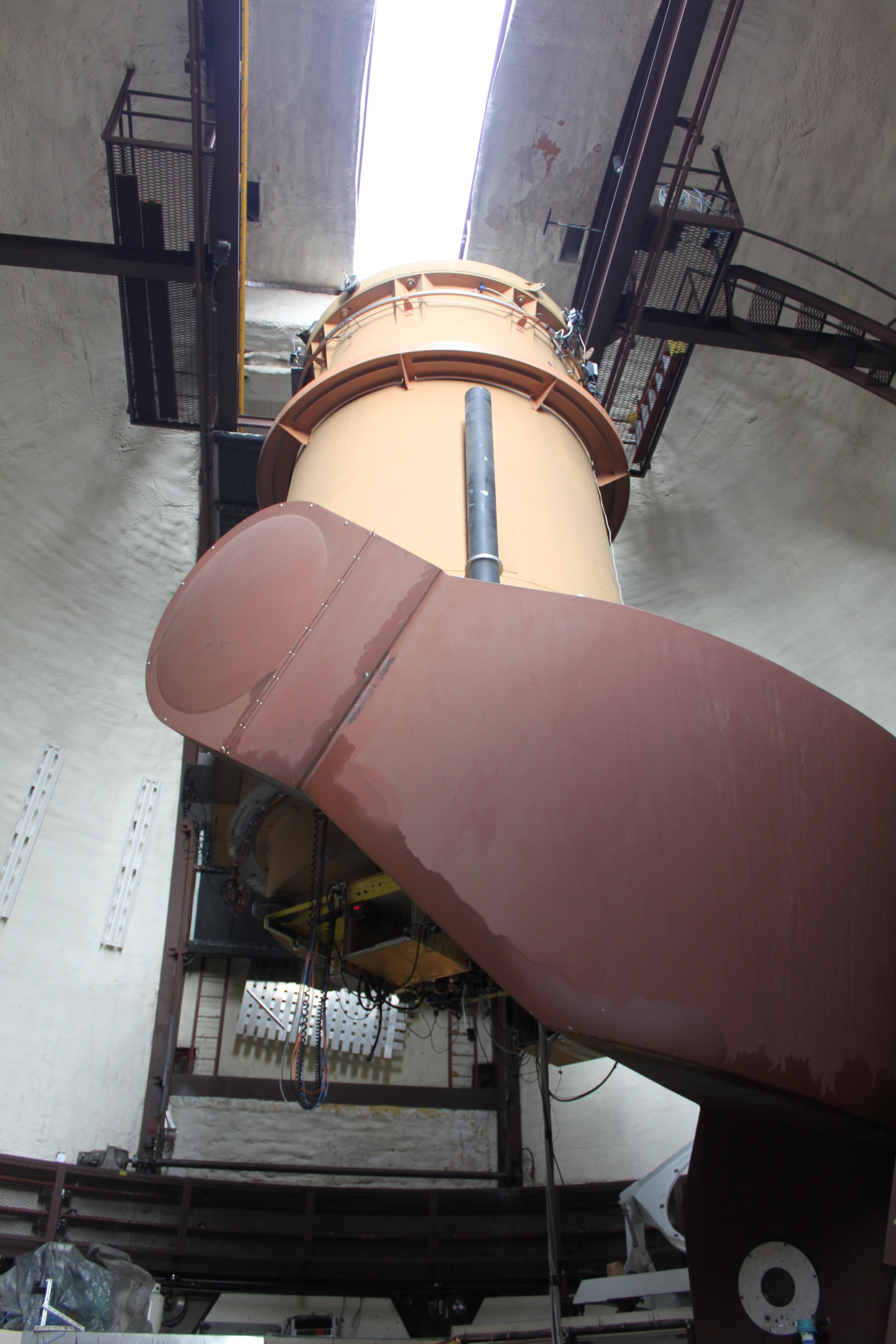 Hawaii / Big Island: UH 88-inch Telescope on Mauna Kea (14,000 ft)